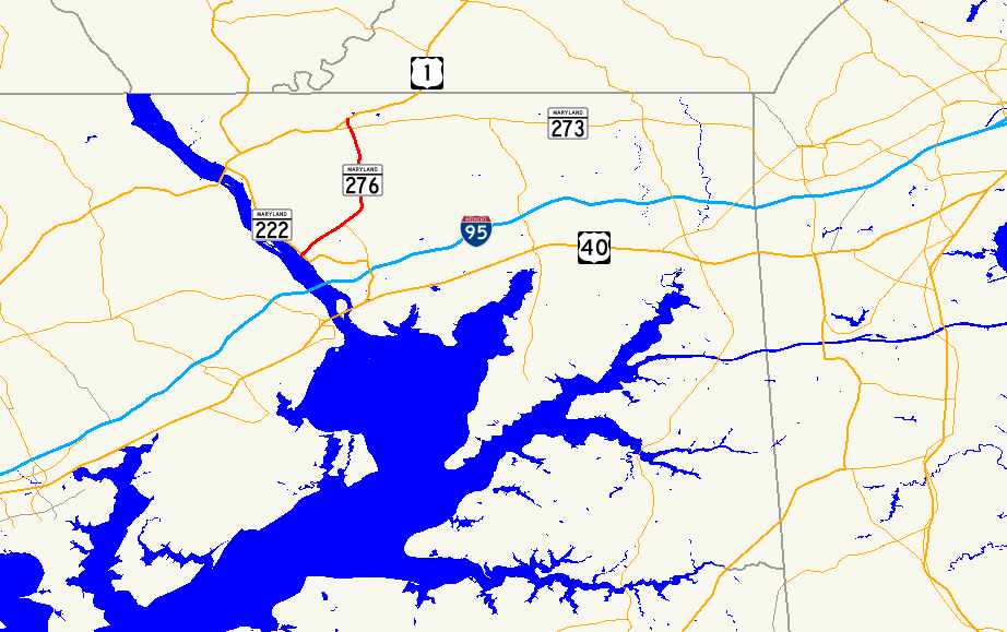 Map of Maryland Route 276